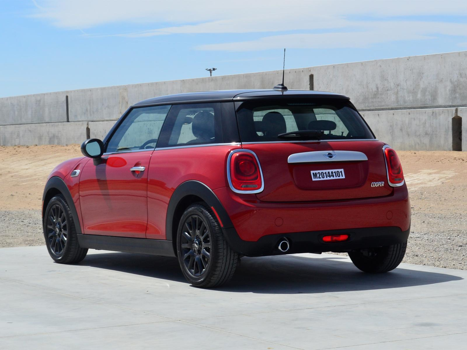 2014 MINI Cooper Hardtop, photographed in USA.